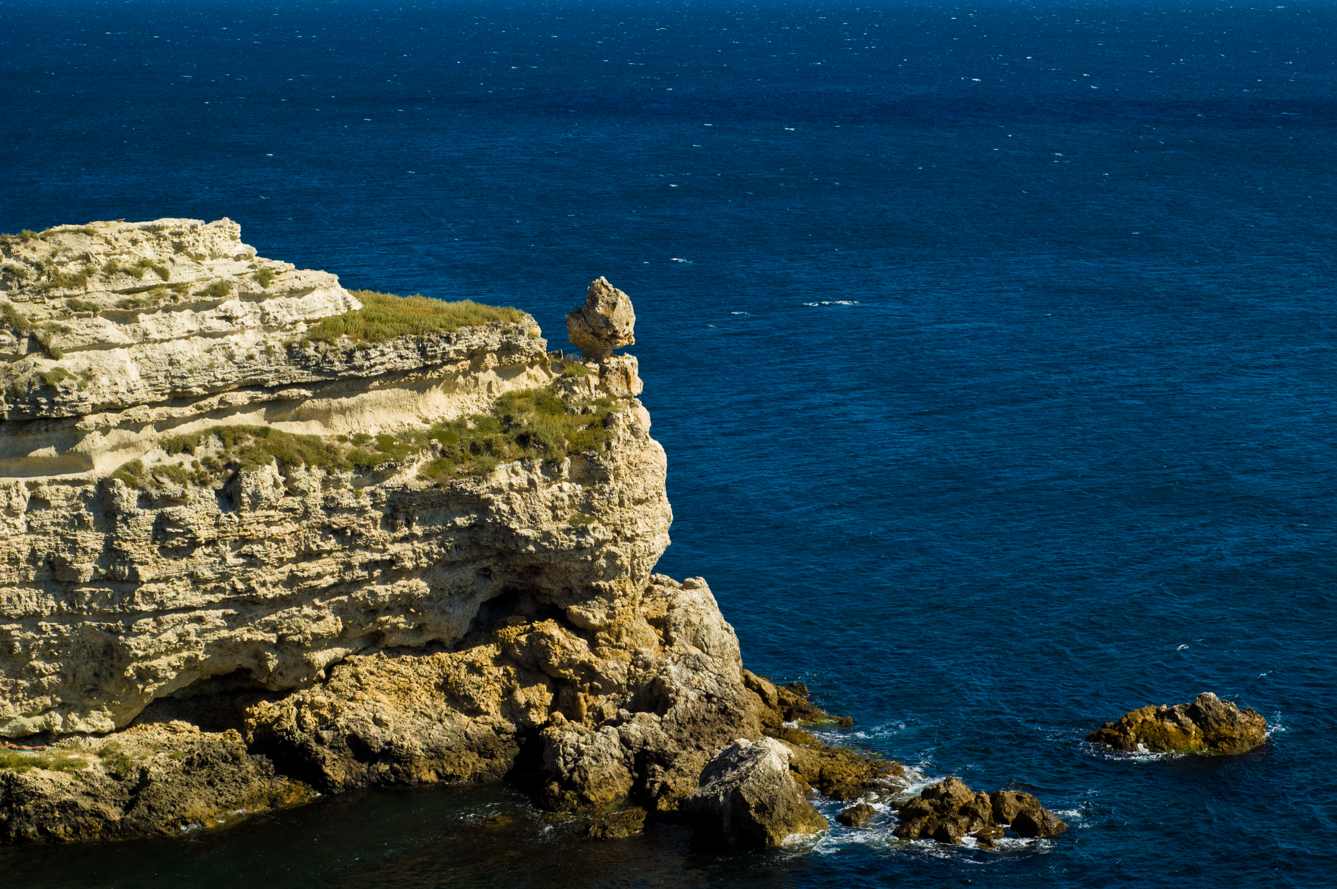 The rock that doesn't fall